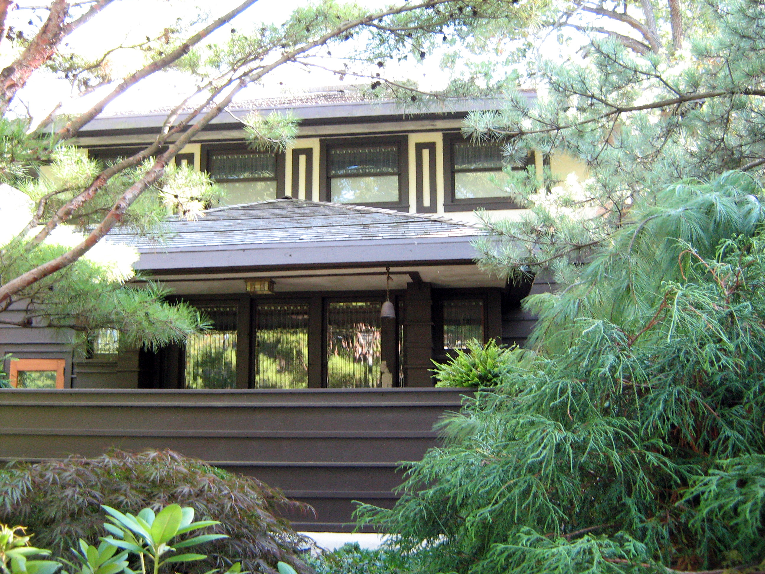 Charles A. Brown House (1905) 2420 Harrison St Evanston, IL 60201 Architect: Frank Lloyd Wright